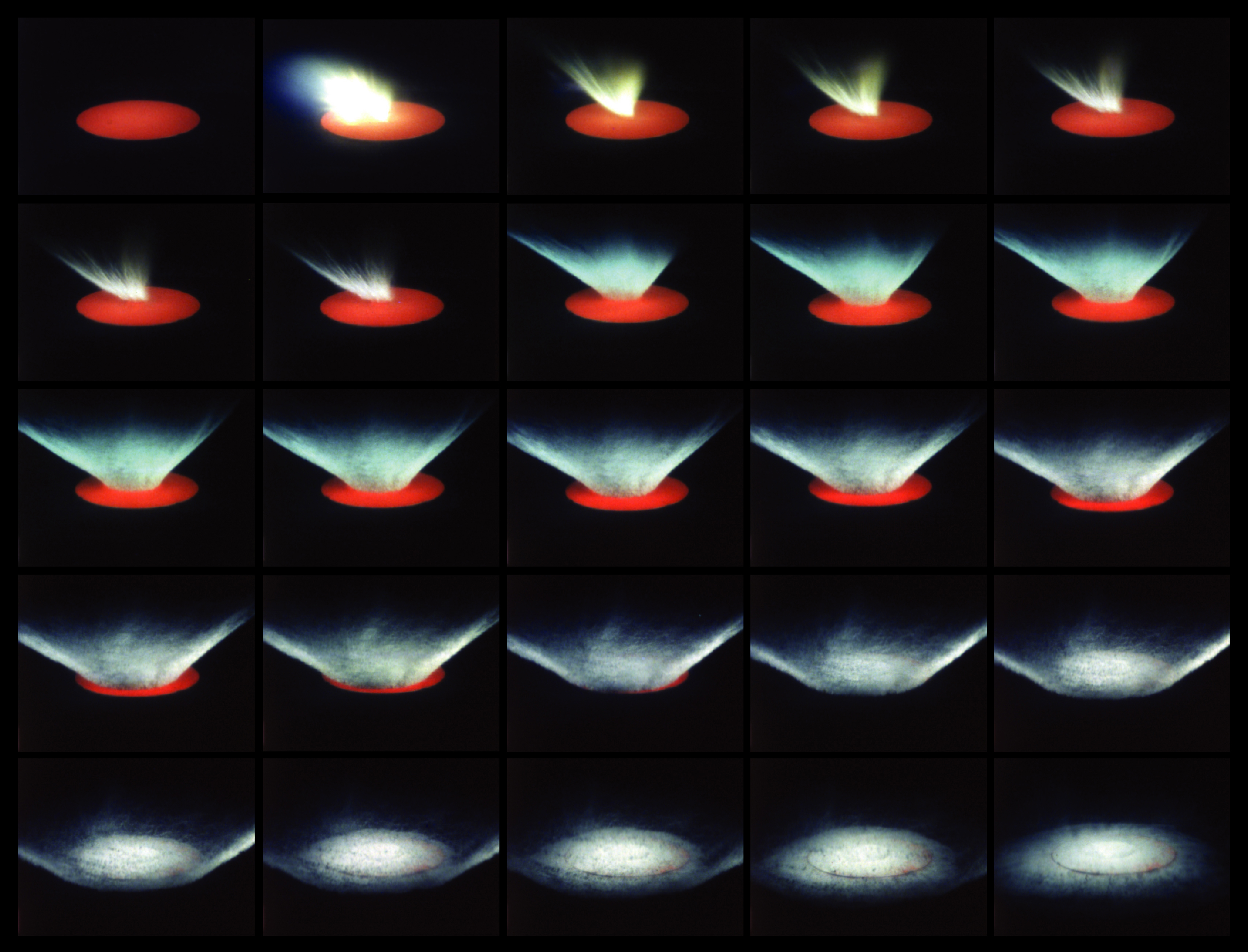 High-speed impact experiment performed at the NASA Ames Vertical Gun Range (AVGR) showing the evolution of the hot vapor and debris (ejecta) launched out of the crater.